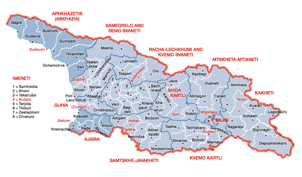 Map of Georgia, its districts and major cities.